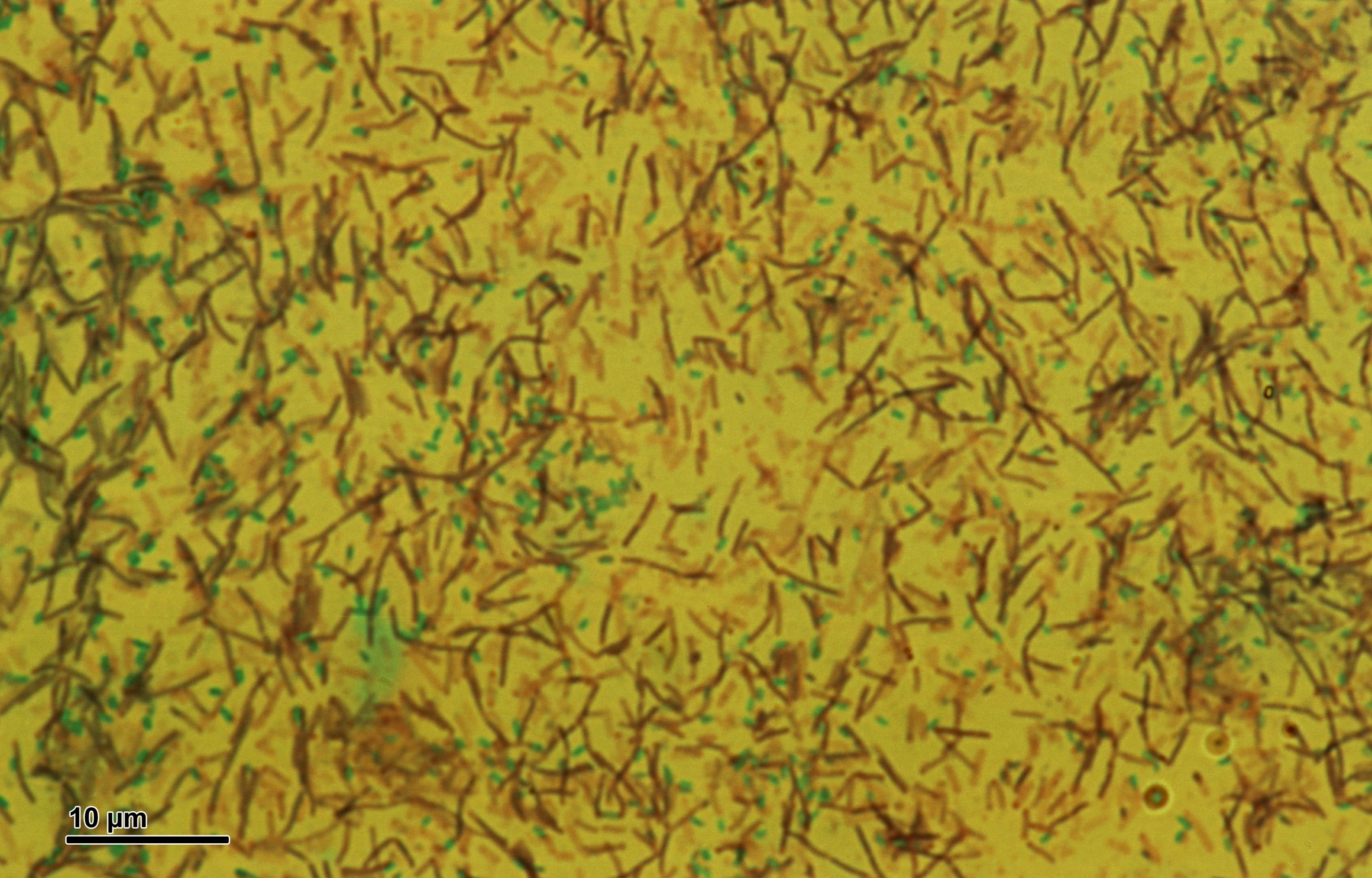 Eubacteria: Various eubacteria, spores stained green. Stain: Yes. Optical microscopy technique: Bright field. Magnification: 3000x (for picture width 26 cm ~ A4 format).